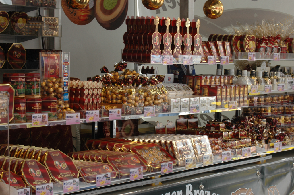 Boxes of different Mozartkugeln in a shop in Salzburg, Austria